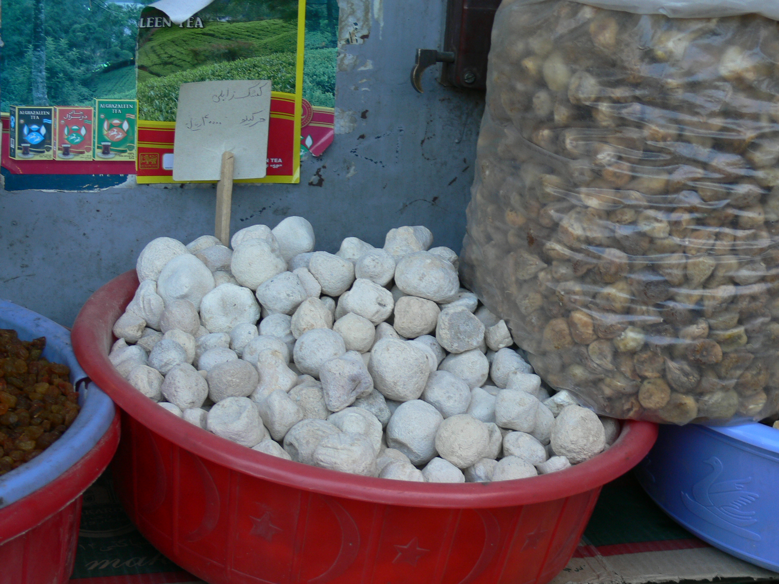 Kashk - dried joghurt